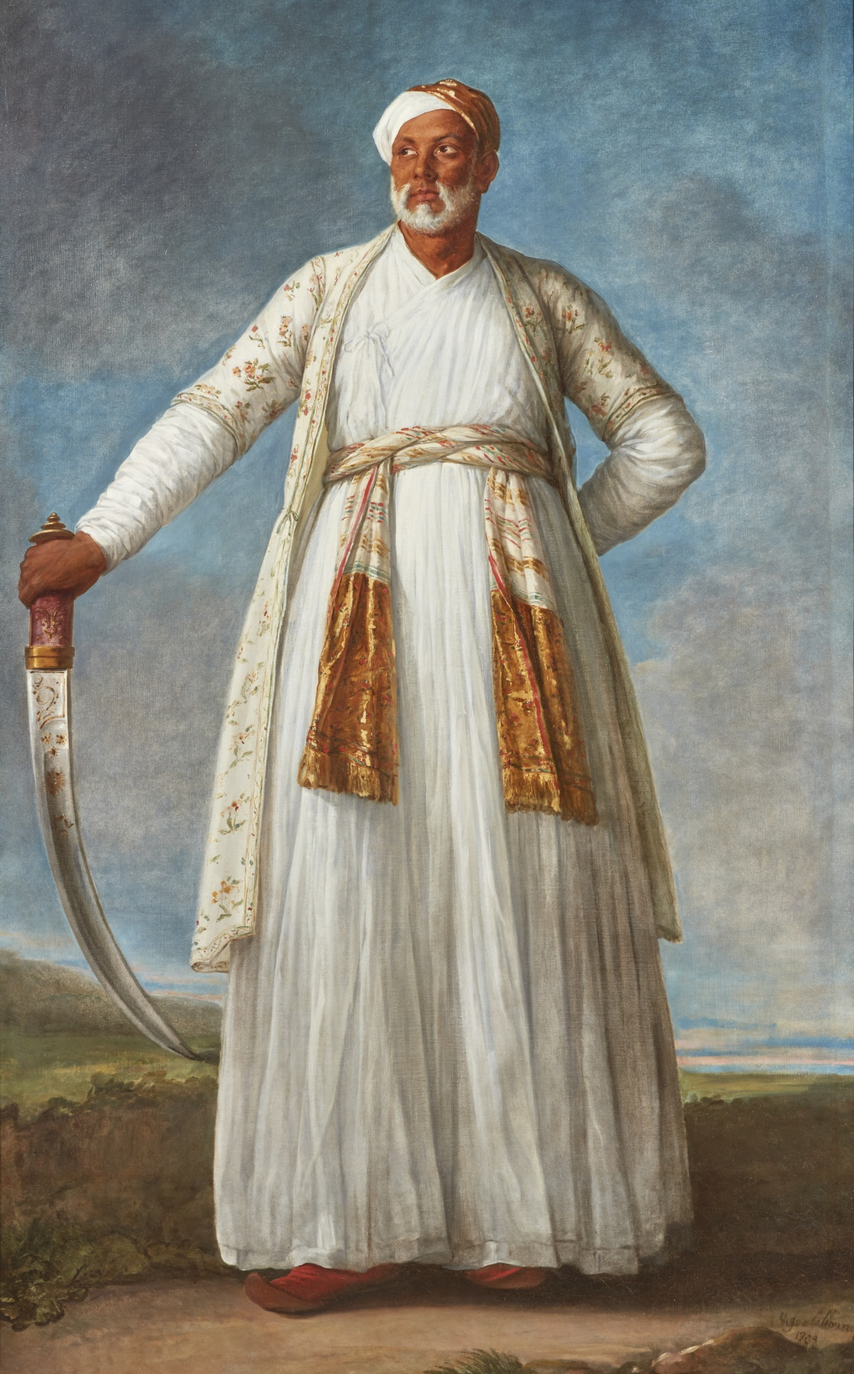 88 3/4 by 55 1/2 in.; 225.5 by 136 cm.